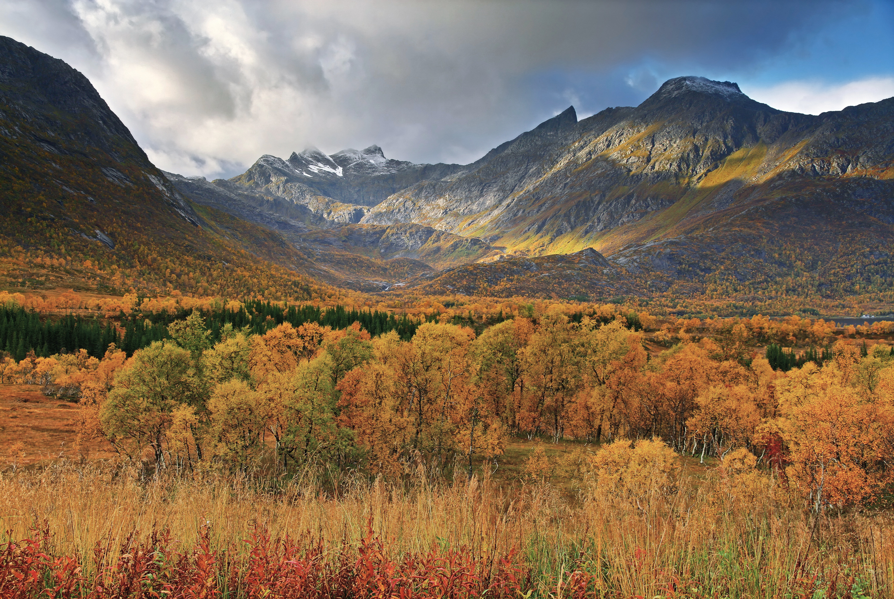 An autumn view near Gullesfjordbotn in the island of Hinnøya, Kvæfjord, Troms, Norway in 2010 September.